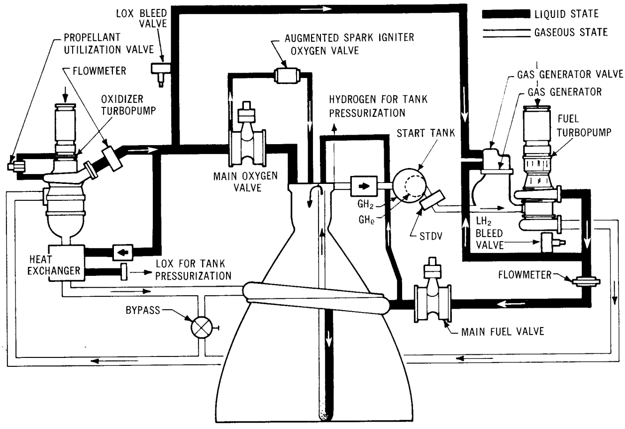 A schematic showing the flow of fuel and oxidiser through the various components of a J-2 engine.